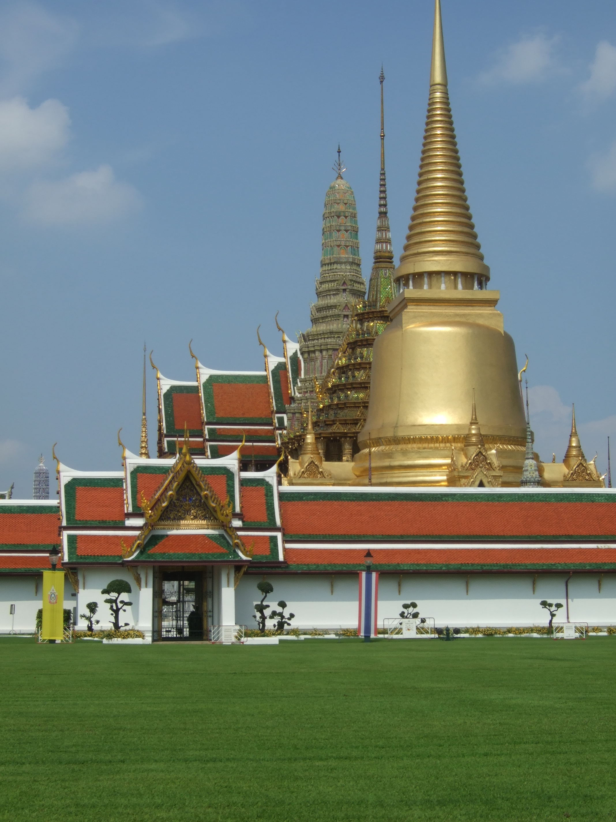 View of part of the Wat Phra Kaew in Bangkok, the Royal Temple within the Grand Palace compound.